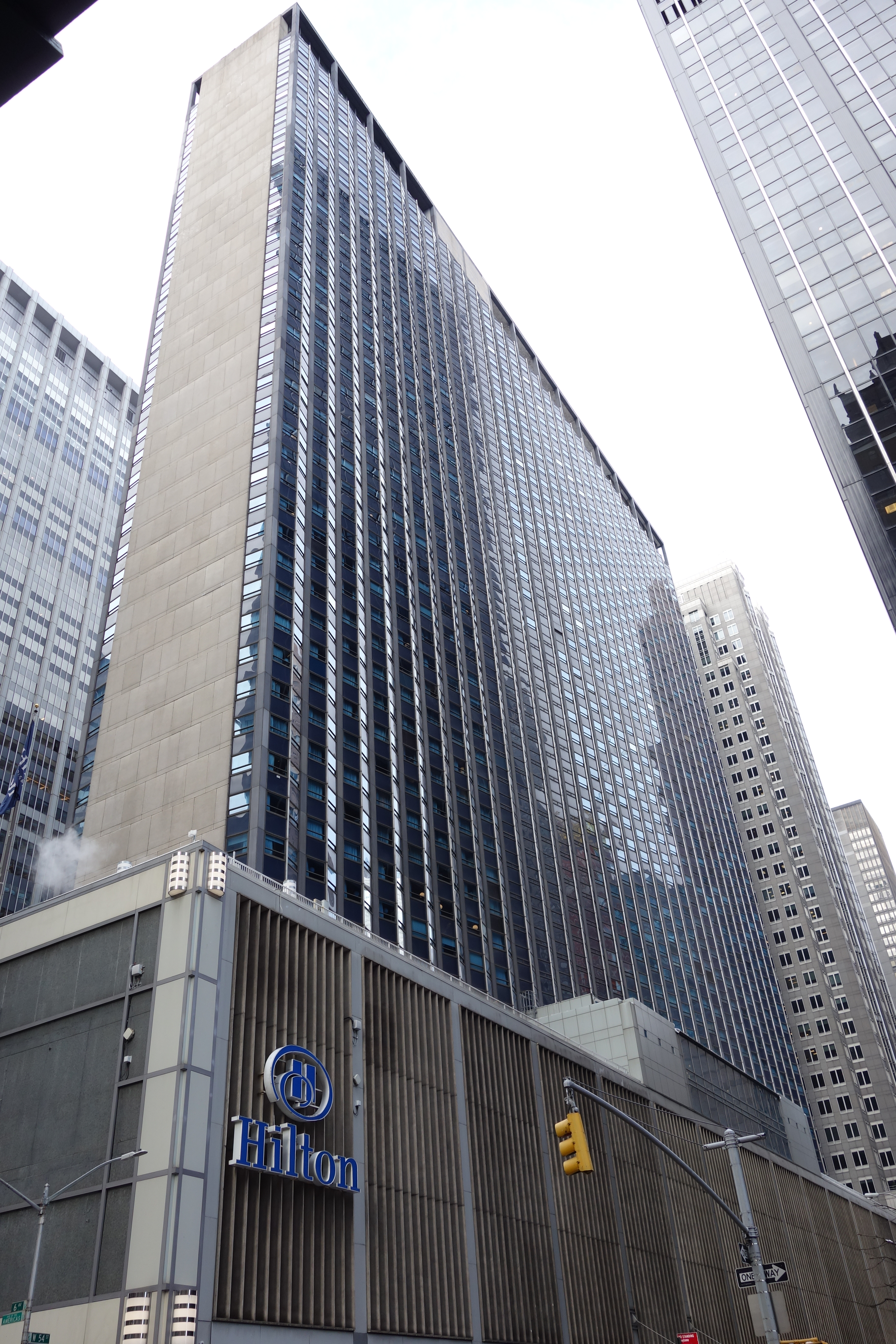 Looking up at the Midtown Hilton hotel, at Sixth Avenue and 54th Street in Midtown Manhattan.